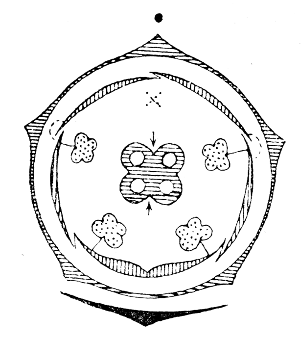 flower diagram of Lamium